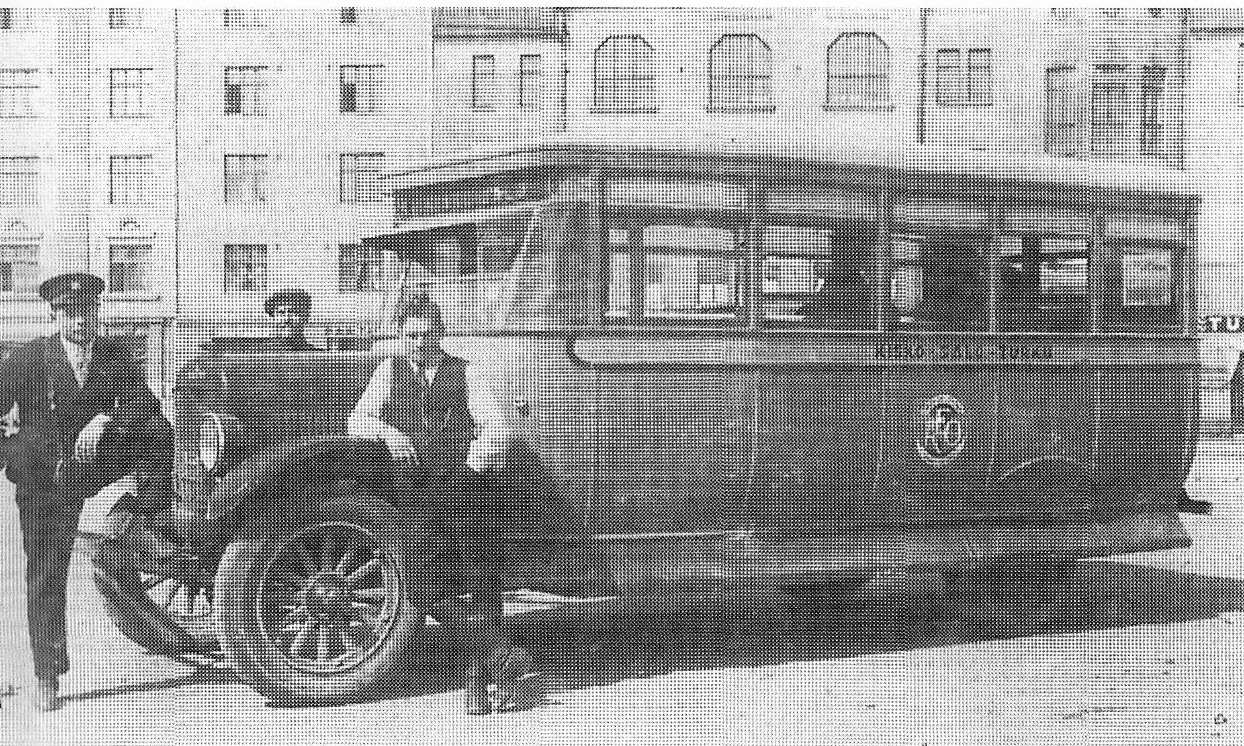 Kaarle Haapasalo with new Reo bus in Turku 1928.